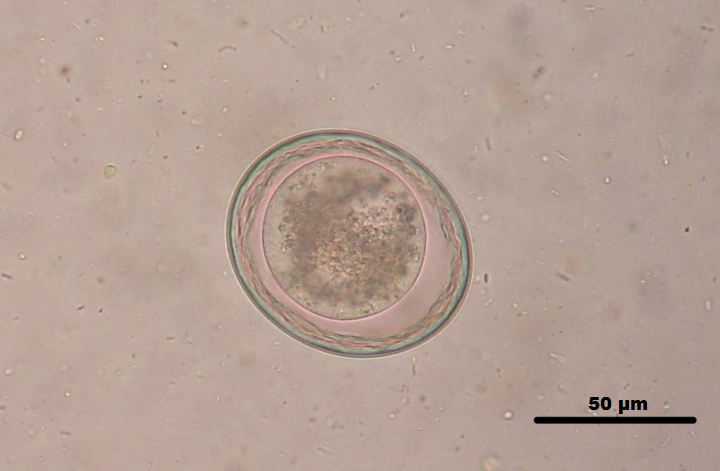 A canine roundworm (Toxascaris leonina) egg. Photo taken through a microscope at 400x. Scale bar is 50 micrometres Česky: Vajíčko škrkavky šelmí - Toxascaris leonina. Fotka byla pořízena pod mikroskopem při zvětšení 400×. Měřítko vpravo dole představuje 50 μm.